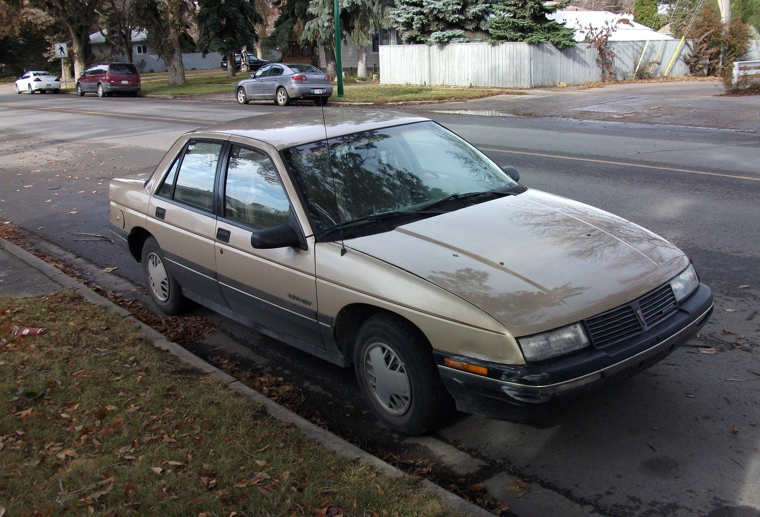 Canada only version of the Chevrolet Corsica - with different grill, hub caps and often two tone paint. The Pontiac version seems to be quite a bit more scarce.